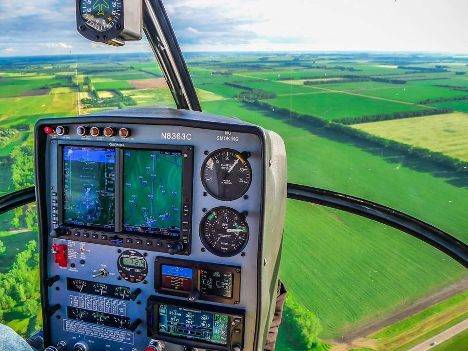 A Sikorsky S-300 helicopter outfitted with a Garmin G500H glass display proceeds on a test flight on its way to certification by the FAA.